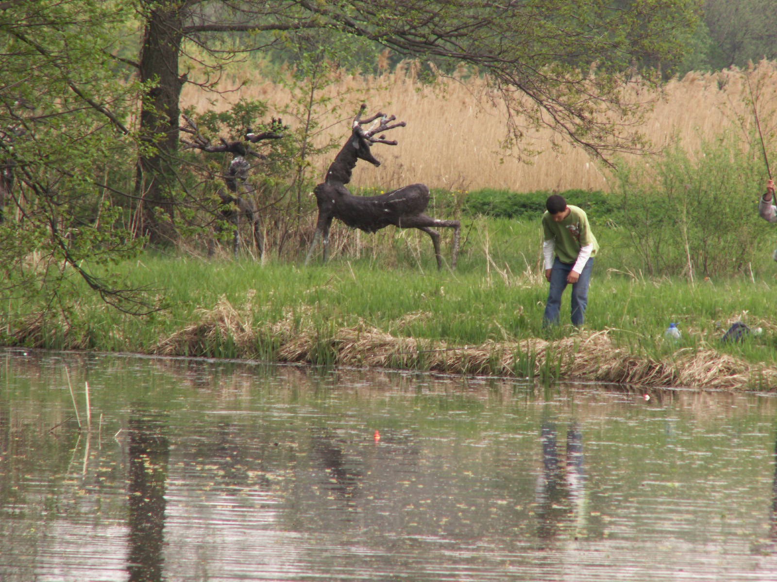 Centre of Polish Sculpture - Orońsko, Anna Dębska, Fallow Deers, 1970